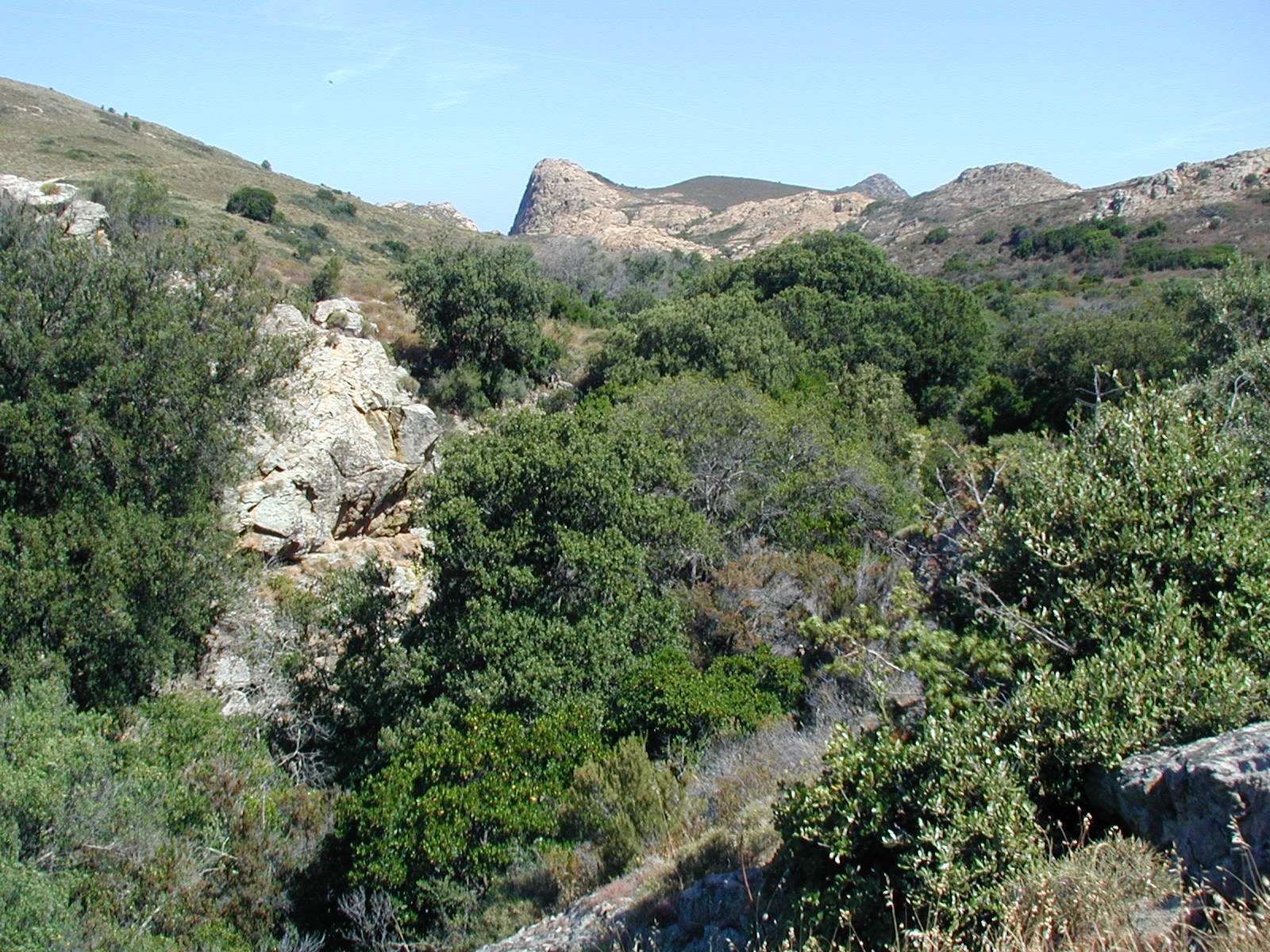 View over maquis near the mouth of the Ostriconi, Agriates, Corsica